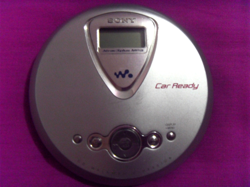 Walkman con lector de MP3